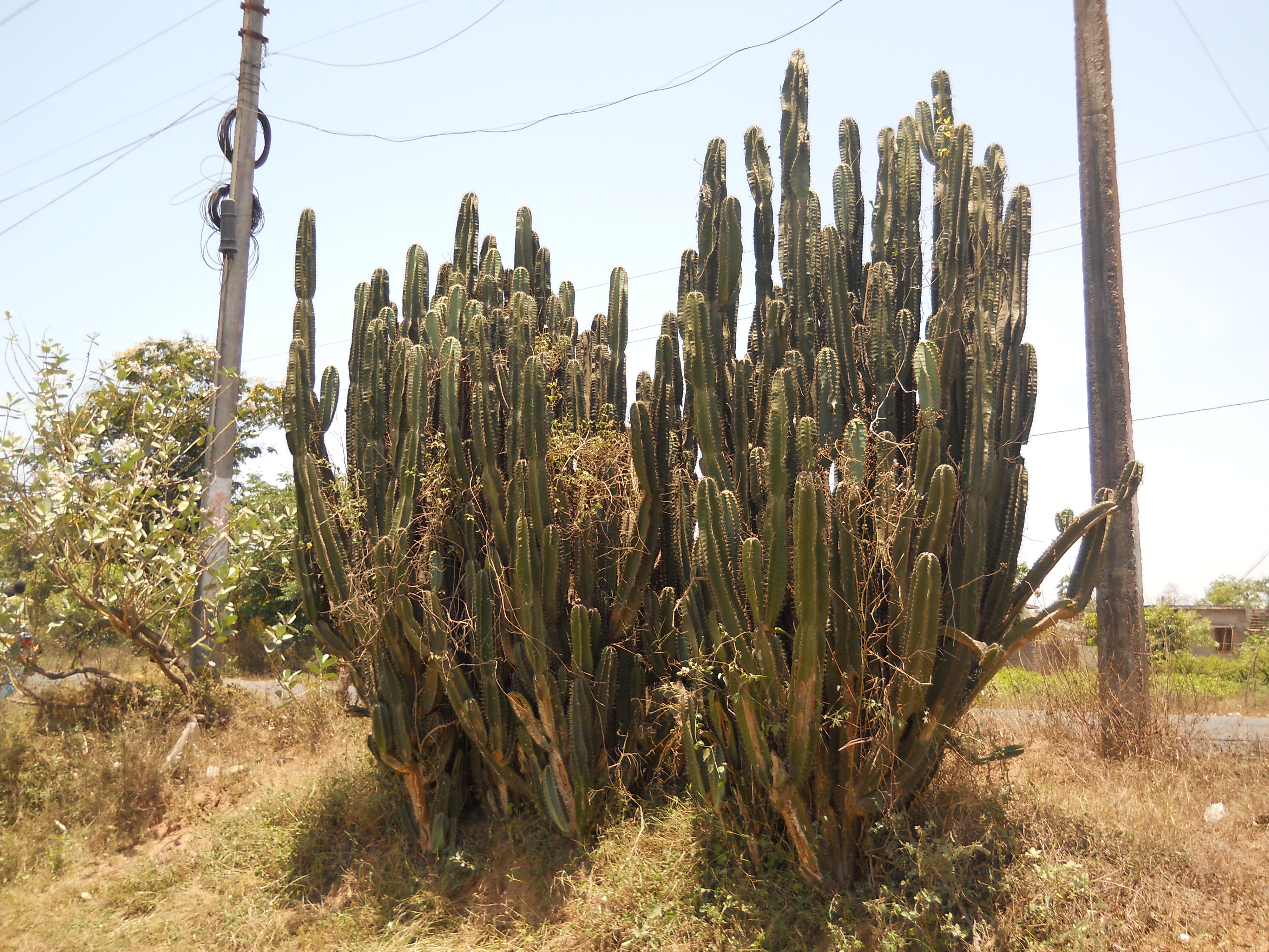 Brahma jemudu